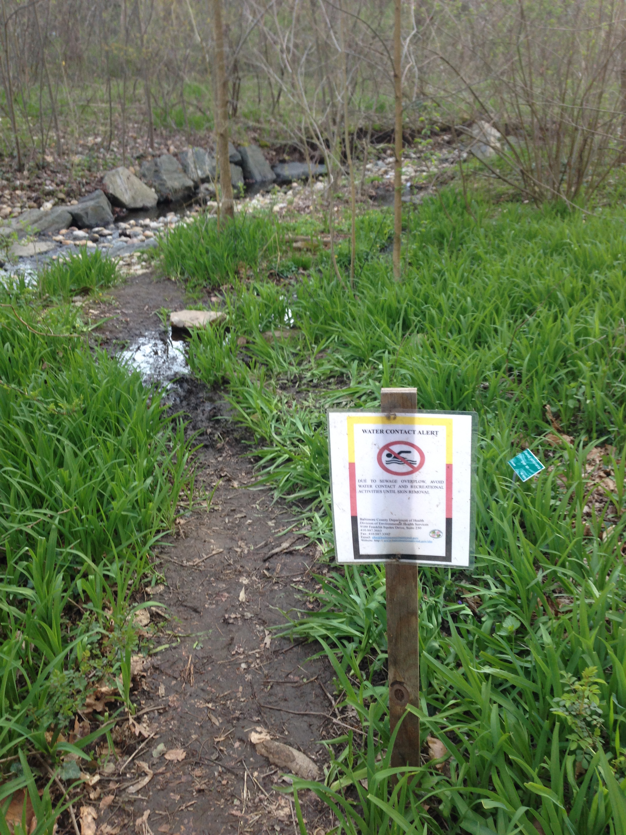 stream extending from Towson Run in the Glen Woods, Towson, MD